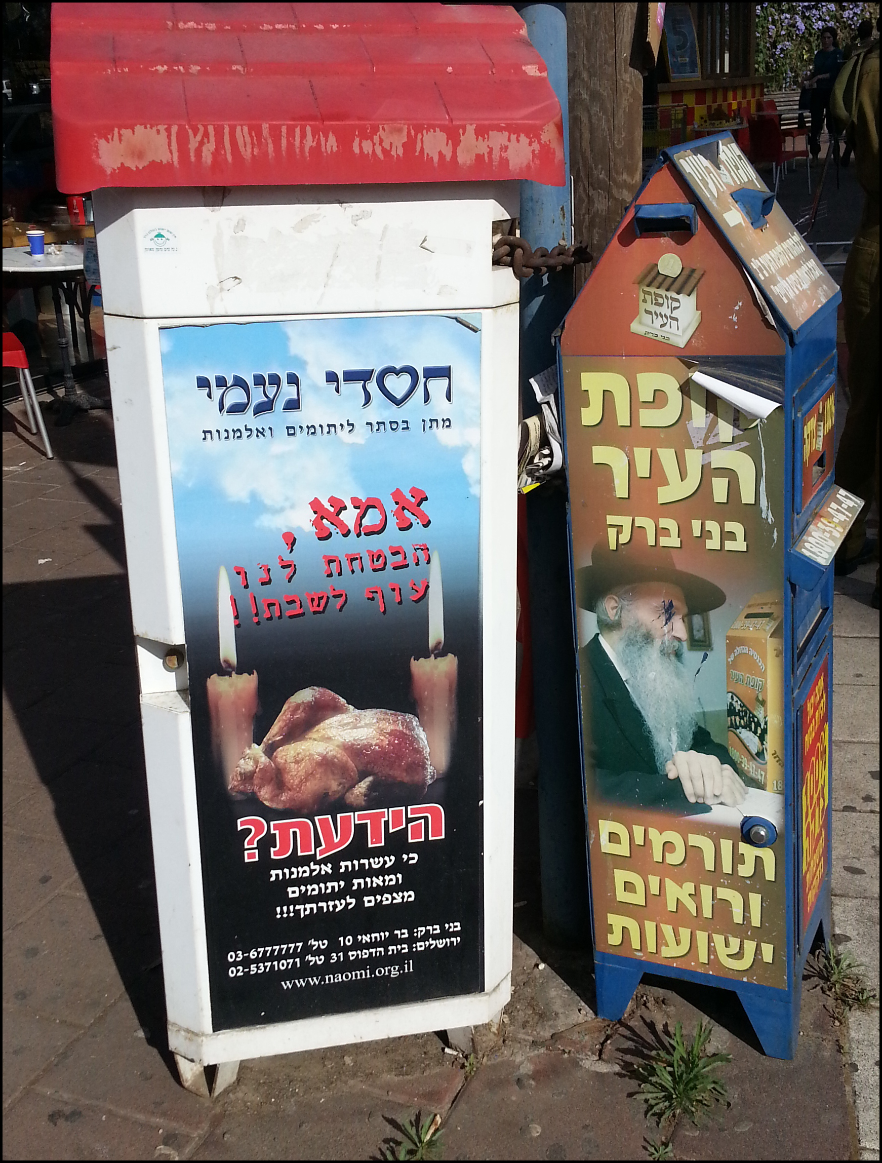 Charity boxes of "Hasdey Naomi" and "Kuppath HaIr" in Israel